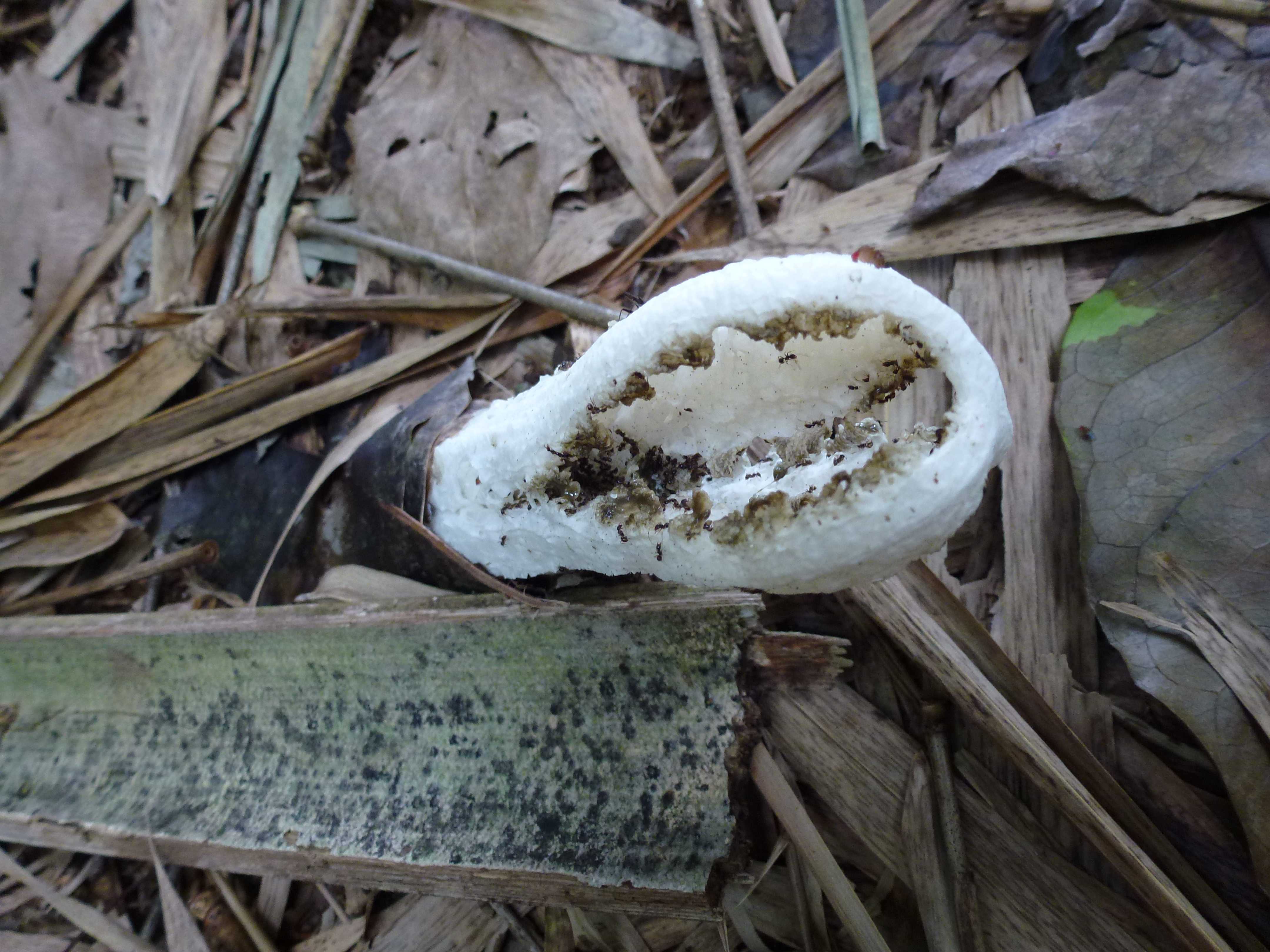 A fruit body of the stinkhorn fungus Blumenavia angolensis (Welw. & Curr.) Dring. Photographed in São Luis, São Tomé, São Tomé and Príncipe, Africa